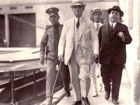 Senador Alfredo Hornedo y Sánchez,del Patido Liberal,Dueño del Periodico El Pais,Excelsior,el sol,El Crisol y quien construyo el Teatro Blanquita y el Hotel Rosita Hornedo y dueño de dos cadenas radiales. Havana, Cuba.